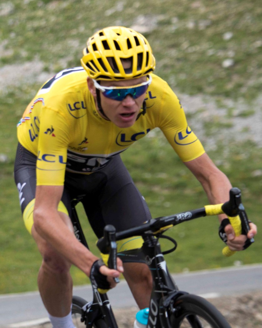 19-7_4 froome uran